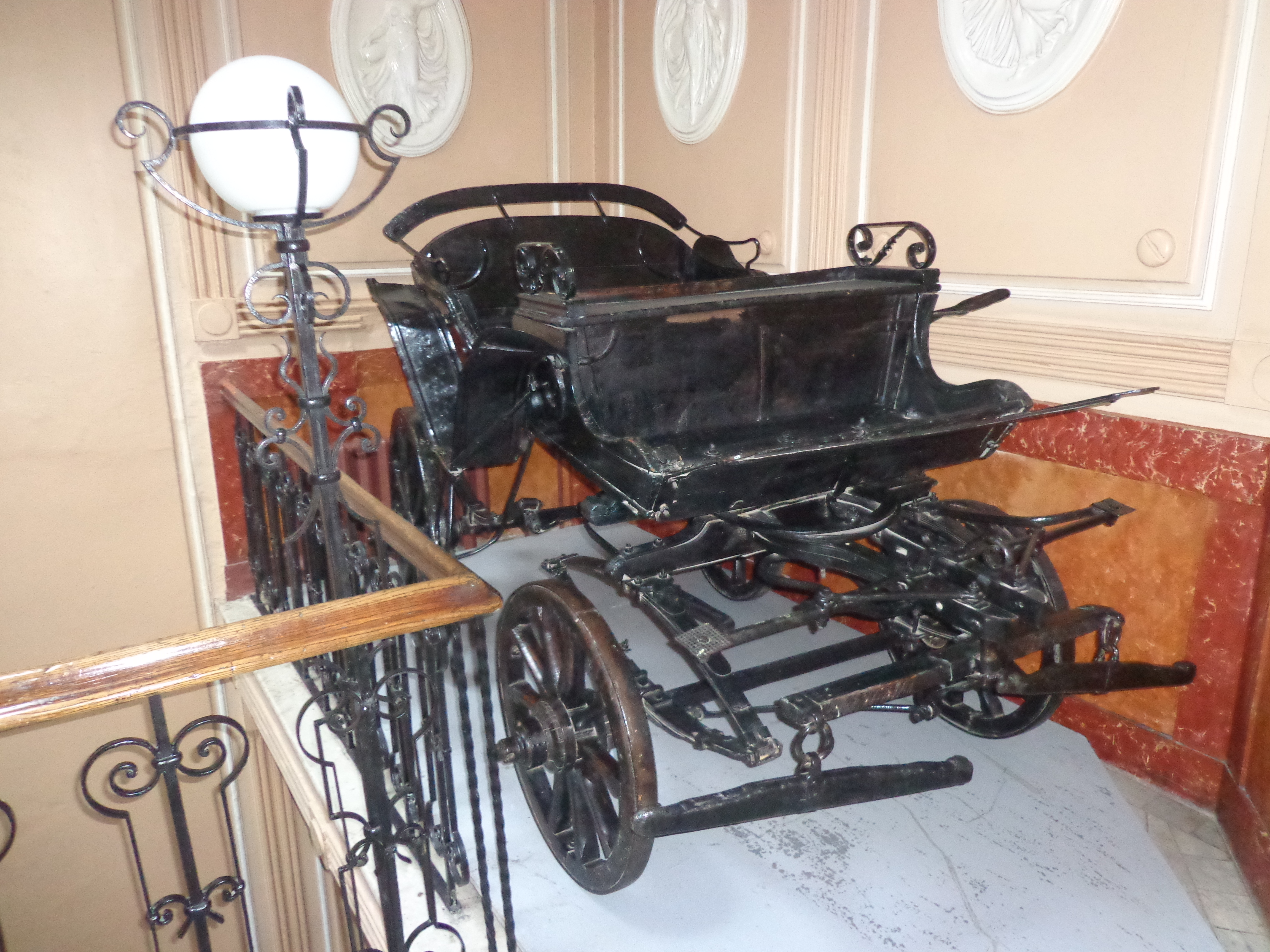 Machinegun cart of 1920 in Melitopol Museum, Melitopol, Ukraine